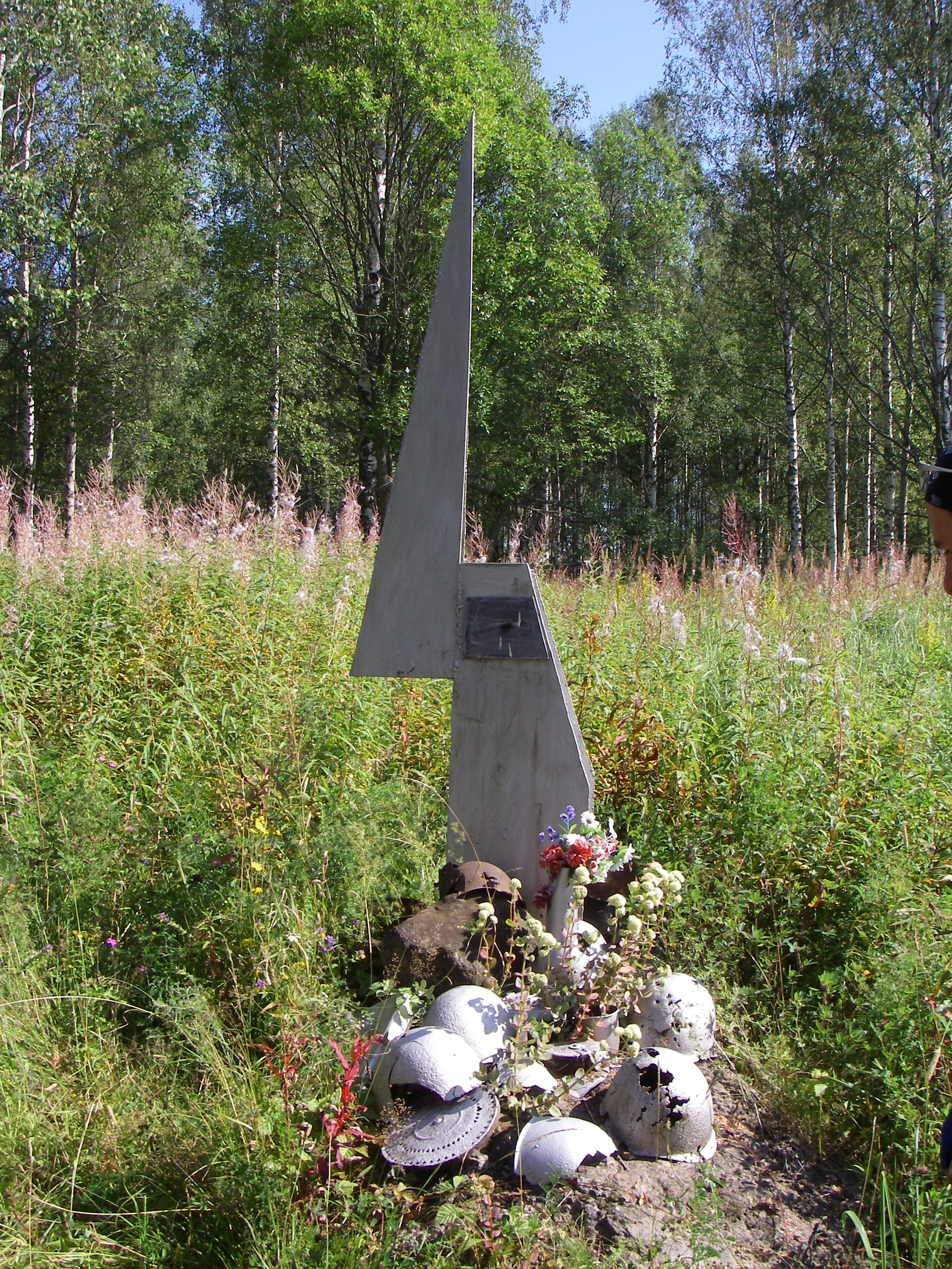 One of the Sinyavino Heights memorials